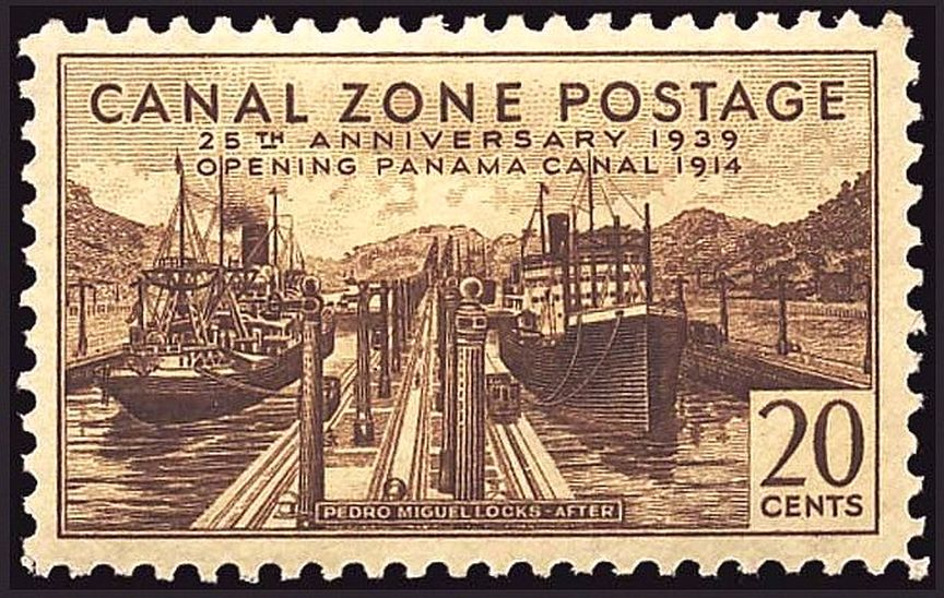 Canal Zone Postage stamp, 1939 Issue, 20cThe Bureau of Engraving and Printing produced 205,000 of this issue, with over half, approximately 104,000, were never sold. On February 28, 1941 the remaining issues were withdrawn from sale, where they were burned on April 12 that same year.